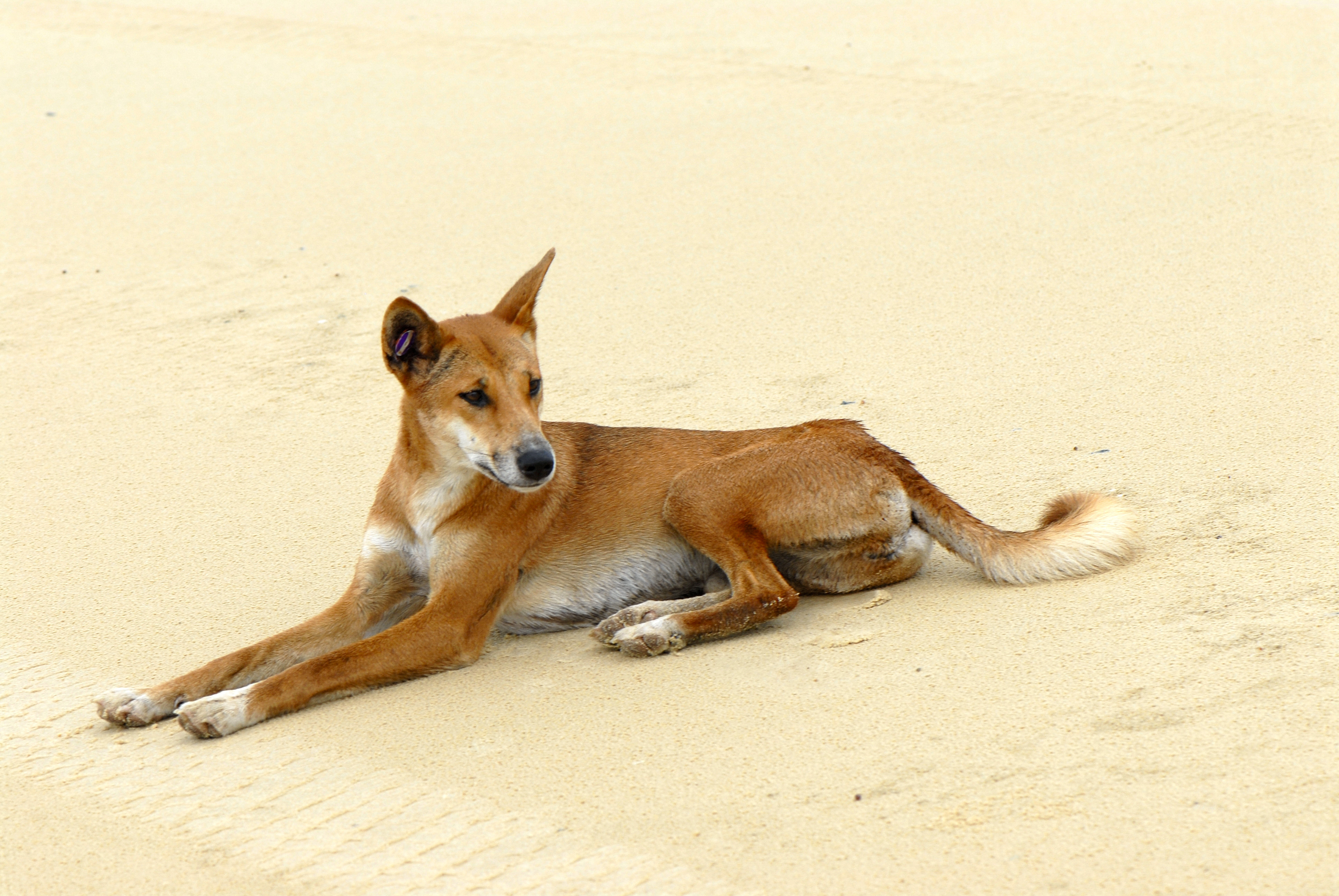 Canis lupus dingo Fraser Island Queensland, Australia Sam Fraser-Smith